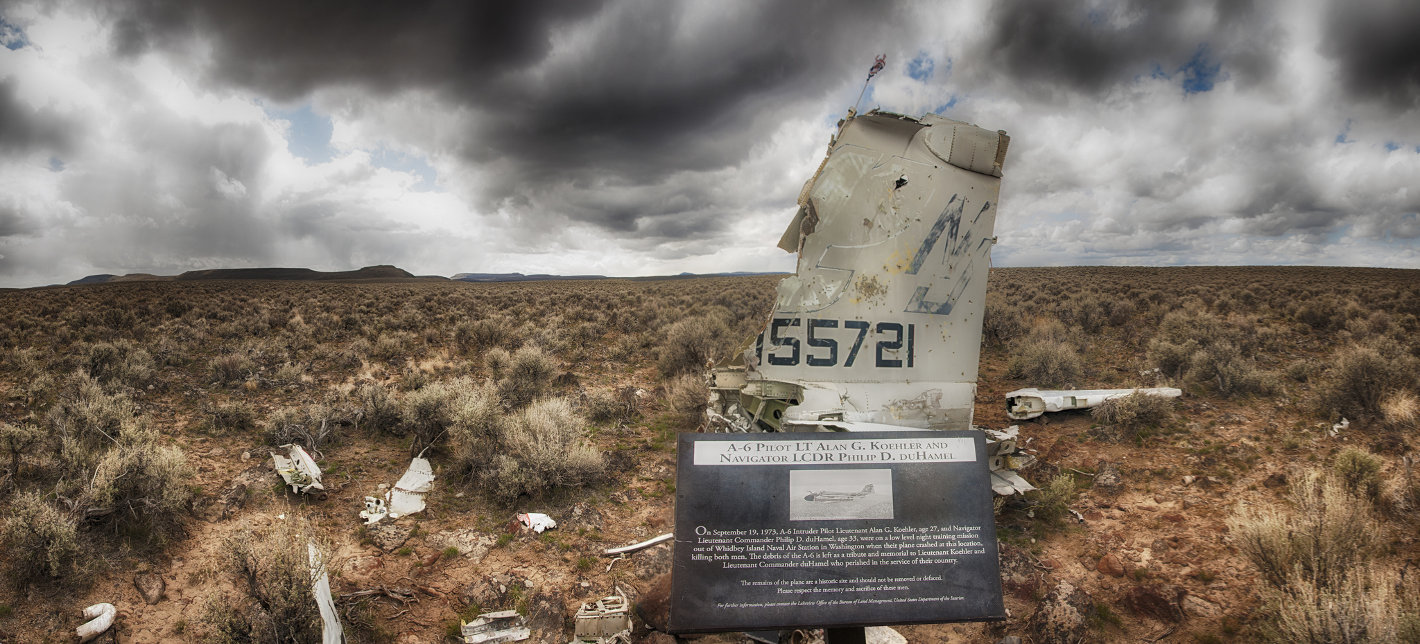 Burma Rim in southern Oregon is a veritable air crash museum. Spanning nearly 30 years, this site has witnessed two major military airplane accidents. The first, a World War II airplane, dropped out of the sky to rapidly descend two miles before hitting the ground. And then in 1973, a Vietnam-era aircraft augered in, leaving a debris field spread over three-quarters of a mile in its wake. Eerily, the two are located within one mile of each other in an Oregon desert location managed by the BLM’s Lakeview District. The first debris field contains the remnants of Lieutenant Clark’s Lockheed P-38 Lightning that went down during a gunnery training flight. The second downed plane is a Navy Grumman A-6 Intruder Bomber from the Naval Air Station at Whidbey Island, Washington. This aircraft hurtled to the ground in 1973 during a low-level night training mission. To honor these veterans, the BLM officially declared the two aircraft crash scenes historic Federal sites at a Flag Day ceremony on June 14, 2007. At the official ceremony, representatives unveiled interpretive plaques which pay tribute to the military and provide context for the historic significance of each location. Photos and story sections by Kevin Abel, BLM